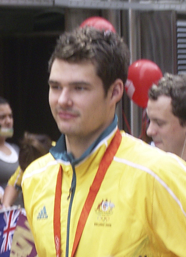 Christian Sprenger, Brisbane Olympic Homecoming Parade